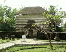 The Tomb of Fatimah binti Maimun, is located in Leran village, Manyar, about 5 km from Gresik, East Jawa, Indonesia. It is currently the oldest Islamic gravestone (c.a. 1082 AD) ever found in Indonesia.